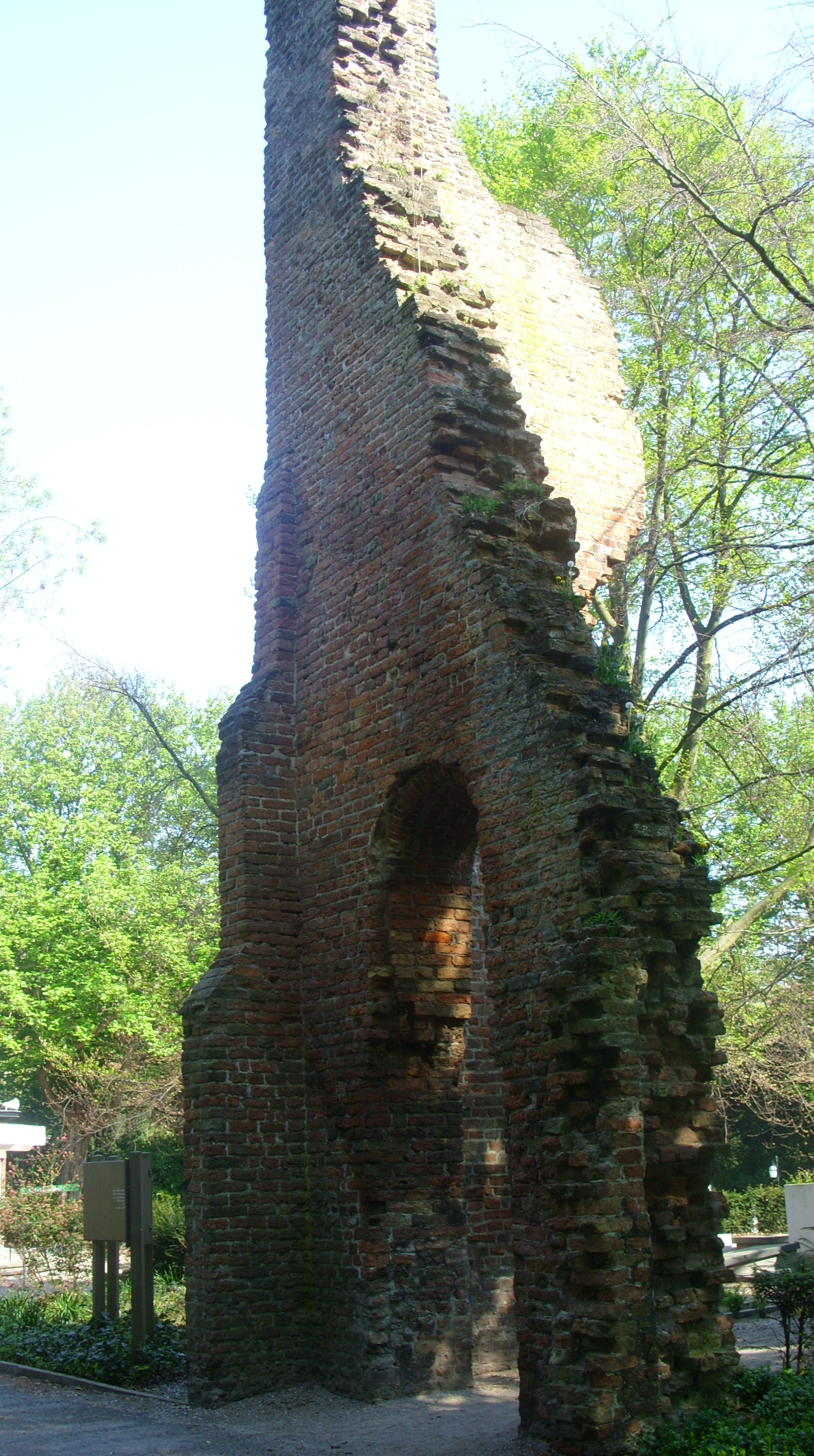 Ruins of a chapel built in 1247 on graveyard "Oud Eik en Duinen", The Hague, The Netherlands